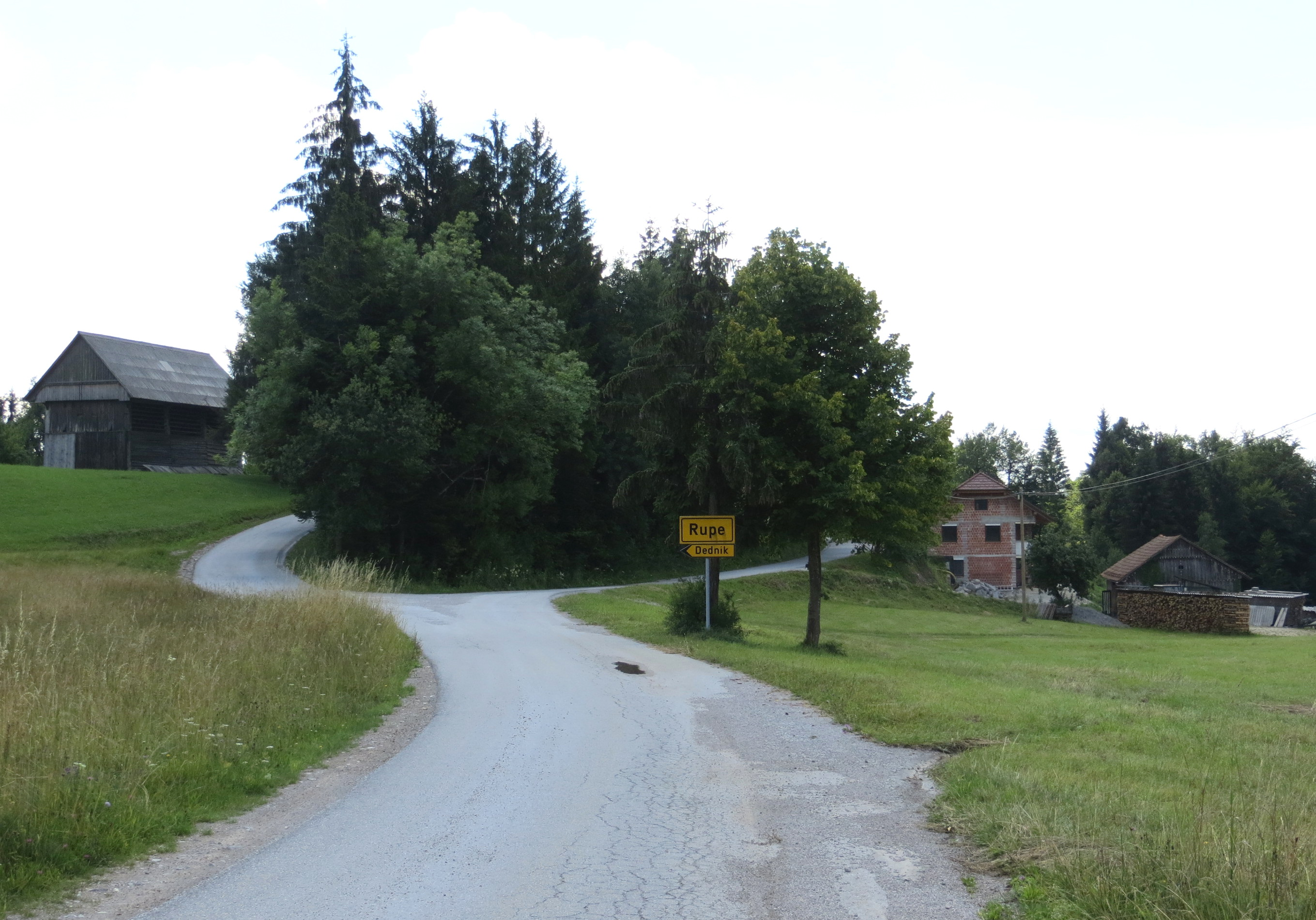 Rupe, Municipality of Velike Lašče, Slovenia